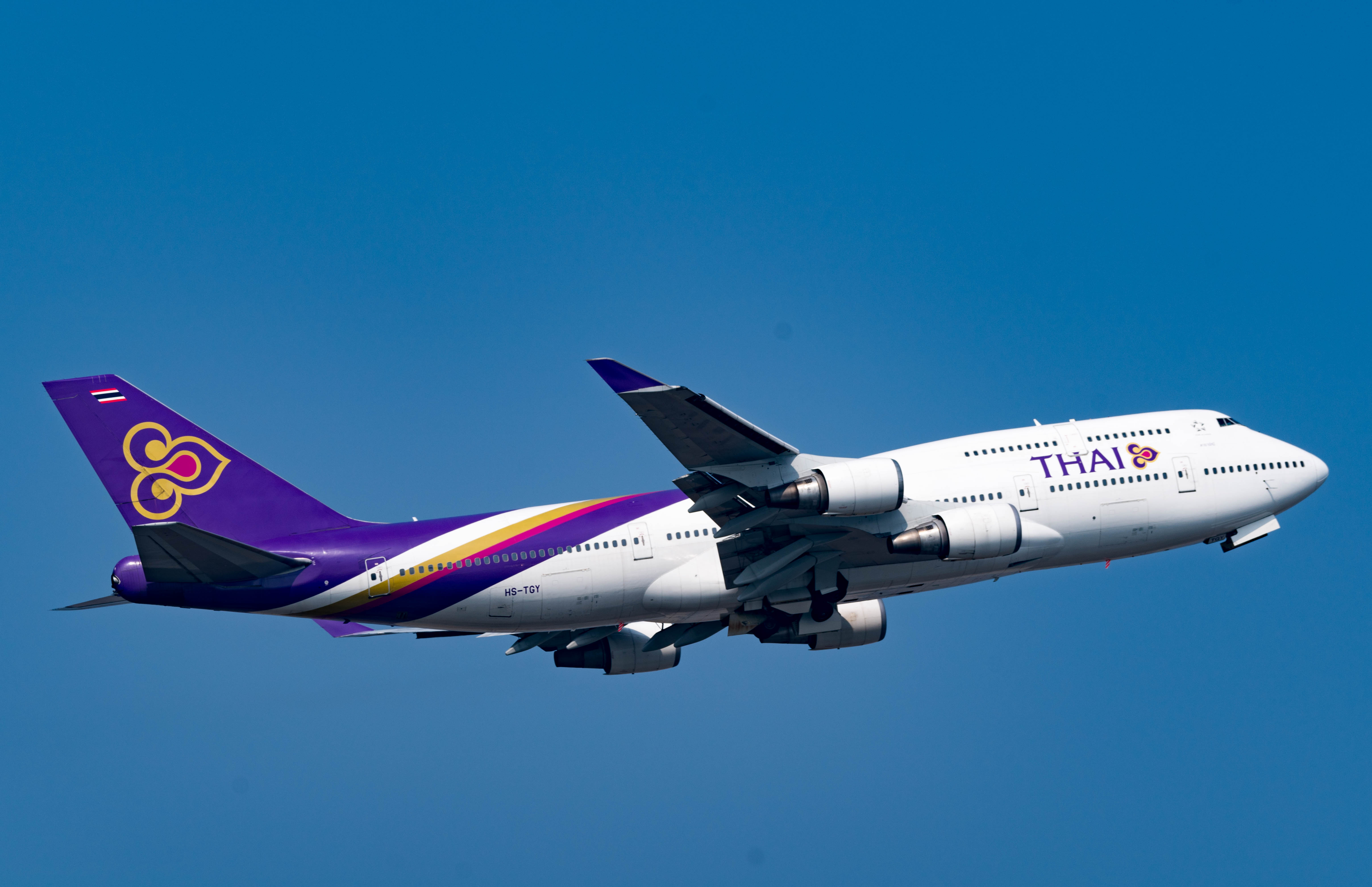 Thai Airways International Boeing 747 at Kansai International Airport